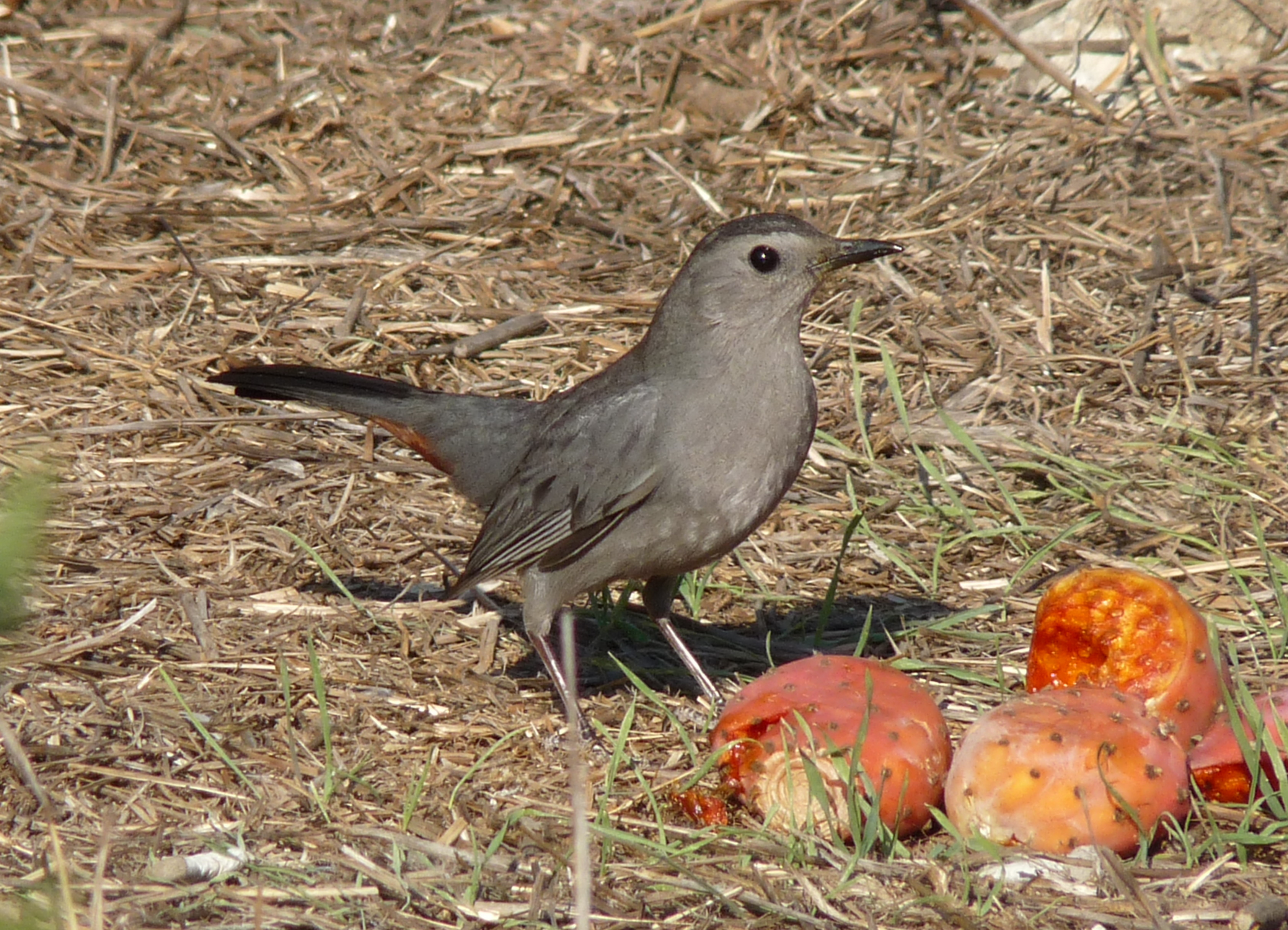 Dumetella carolinensis A very rare visitor to Coastal California is this Gray Catbird (only recorded in San Luis Obispo County 4 times EVER), currently visiting at the base of Morro Rock. One would be more likely to see him in Panama or the West Indies at this time of year. This one is dining on Prickly Pear fruits and there were at least a dozen birders that came to see and photograph this bird today...one from 100 miles away.